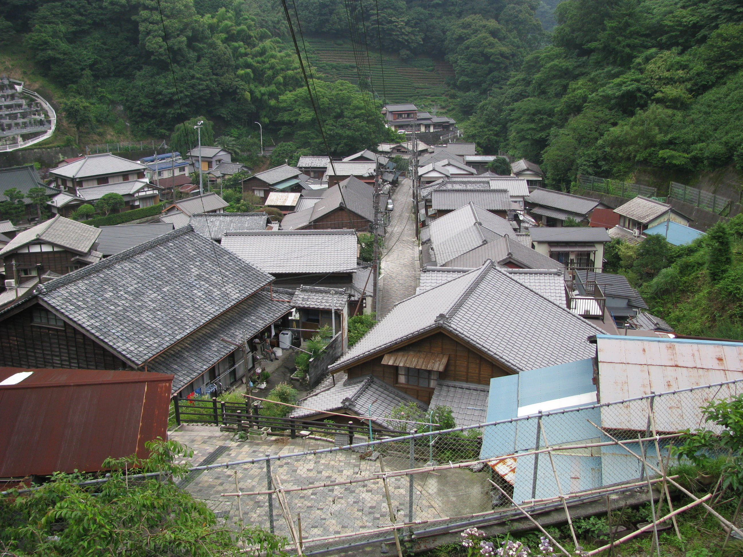 The Old Tōkaidō. This place is Suruga, Shizuoka, Shizuoka Prefecture, Japan.